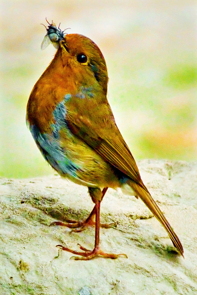 Photograph of a European robin with a fly caught for feeding on. Photograph taken by CentralJake ( 2007-05-30: Colchester, England